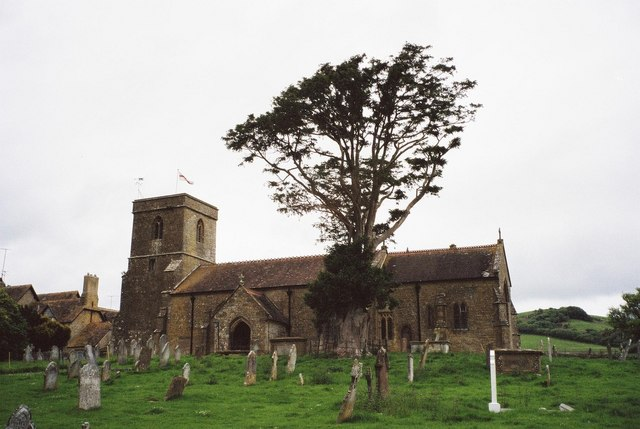 St Mary's parish church, Stoke Abbott, seen from the south